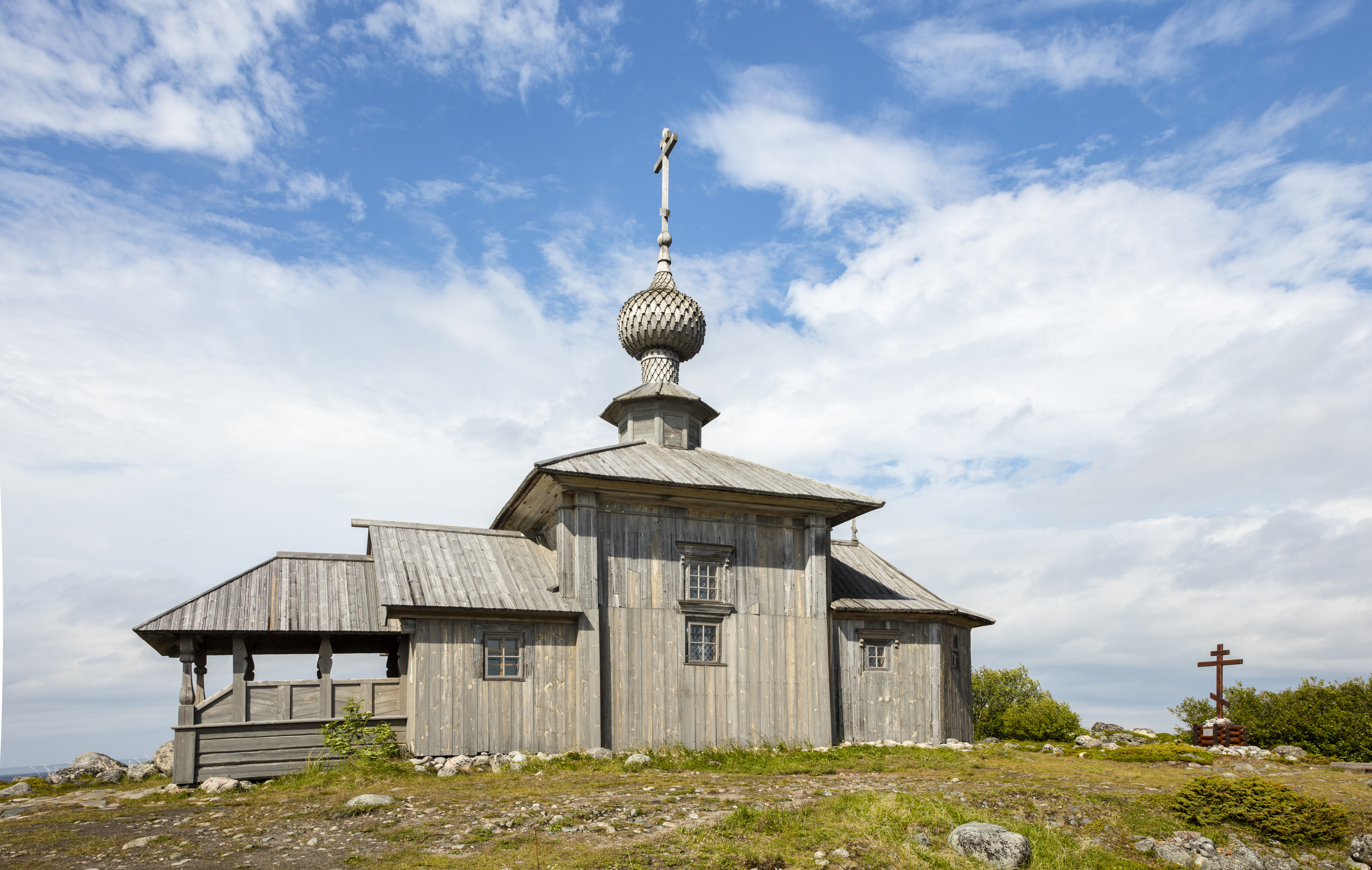 Church of St. Andrew, Bolshoi Zayatsky Island, Solovetsky Islands, White Sea, Russia